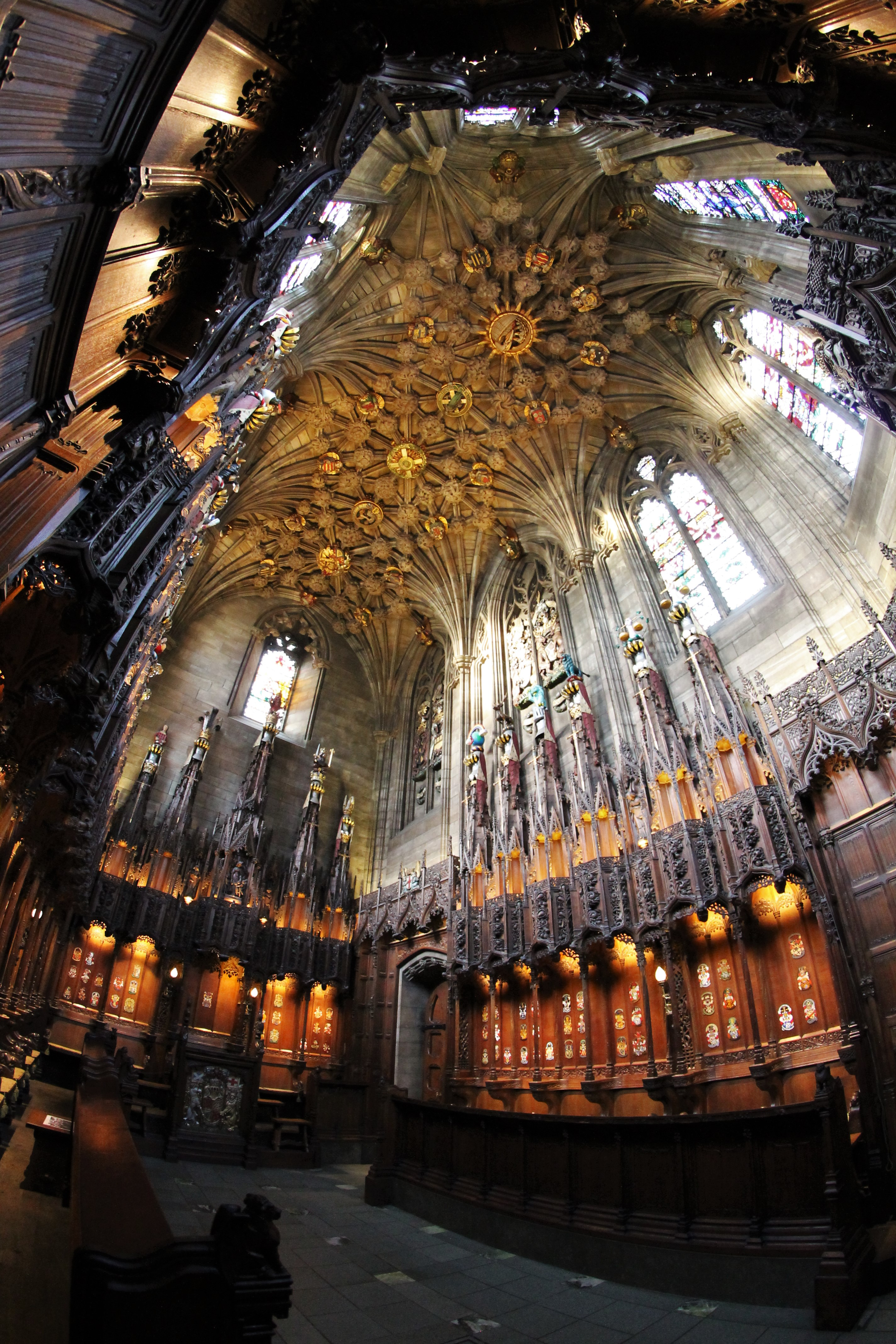 The Thistle Chapel of St Giles' Cathedral, Edinburgh is the chapel of the Order of the Thistle; it was designed by Robert Lorimer and opened in 1911.